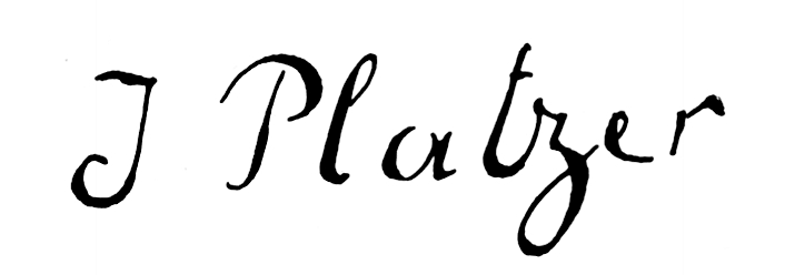 This signature is believed to be ineligible for copyright and therefore in the public domain because it falls below the required level of originality for copyright protection both in the United States and in the source country (if different). In this case, the source country (e.g. the country of nationality of the signatory) is believed to be Austria. Note that this tag cannot be used on all signatures, as not all signatures are copyright-free. See Commons:When to use the PD-signature tag for an explanation of when the tag may be used. Johann Georg Platzer (1704–1761) Alternative names Johann Georg PlazerDescriptionGerman painterDate of birth/death 24 June 1704 10 December 1761Location of birth/death Eppan in the County of South Tyrol Eppan in the County of South TyrolWork location Vienna, EtschlandAuthority control : Q85265 VIAF: 25411318 ISNI: 0000 0000 6675 9280 ULAN: 500016832 LCCN: n87942369 WGA: PLATZER, Johann Georg WorldCat creator QS:P170,Q85265